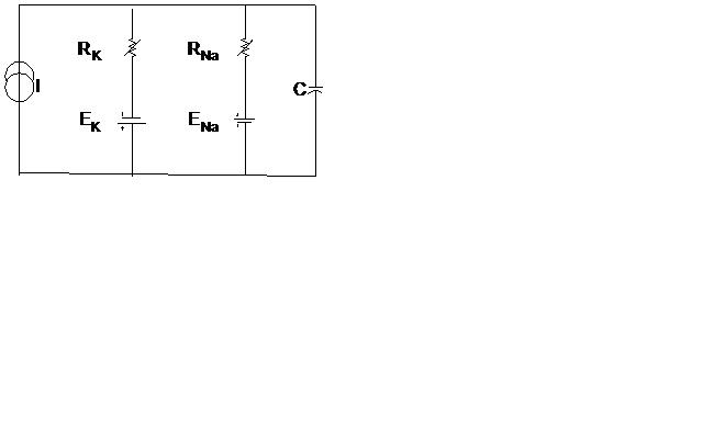 Membrane model for wikipedia article